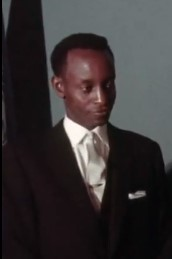 Grace Ibingira meeting other delegates the UN